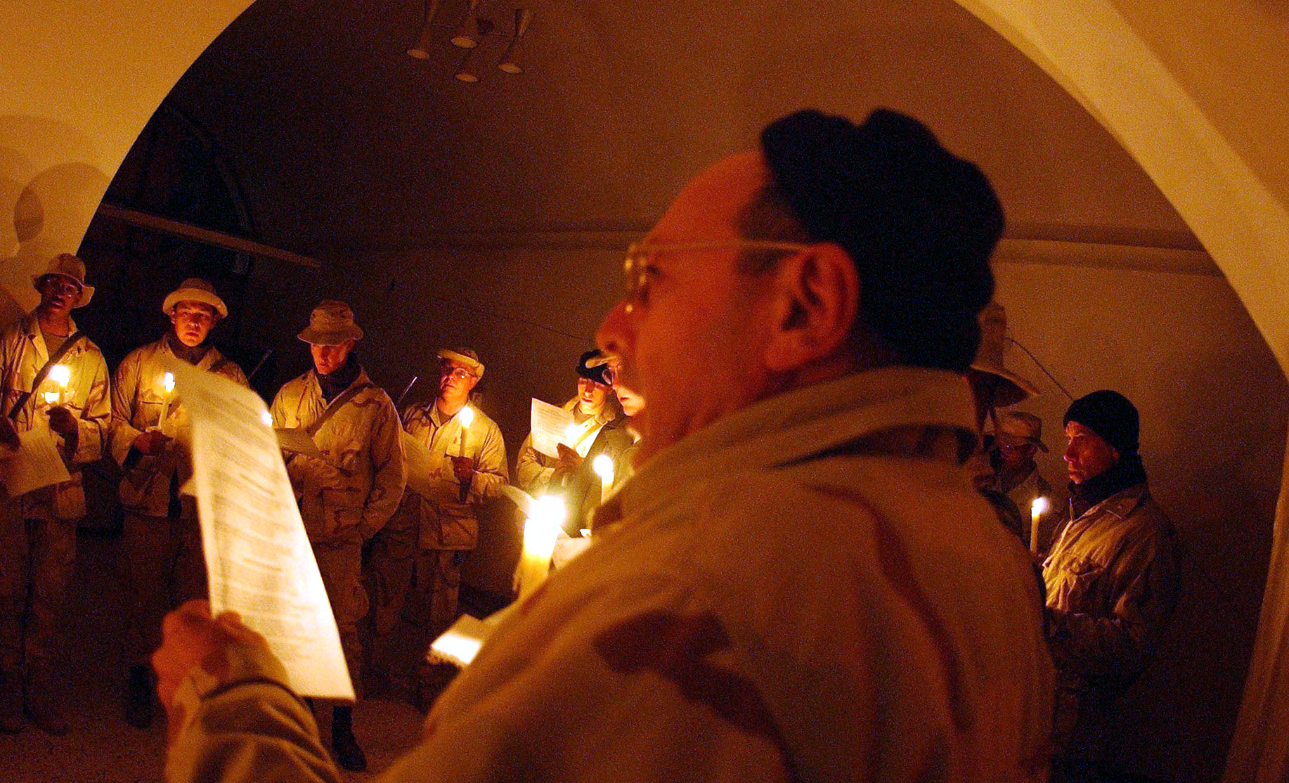 Kandahar, Afghanistan (Dec. 24, 2001) -- U.S. Navy chaplain commander Joseph Scordo of Pleasantville, NY, leads Christmas carolers in celebrating the holiday season at a forward operating base in Kandahar, Afghanistan. Chaplain Scordo is assigned to USS Bataan's (LHD 5) Amphibious Ready Group. U.S. military personnel are in Afghanistan operating in support of Operation Enduring Freedom.